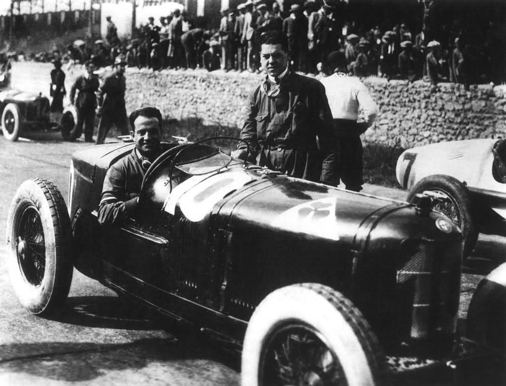 Entry #10 at GP at Monza on 6 September 1925 was an Alfa P2 driven by Pete DePaolo. Next to the car is the mechanic Giulio Ramponi. They ended in 5th place.[1]